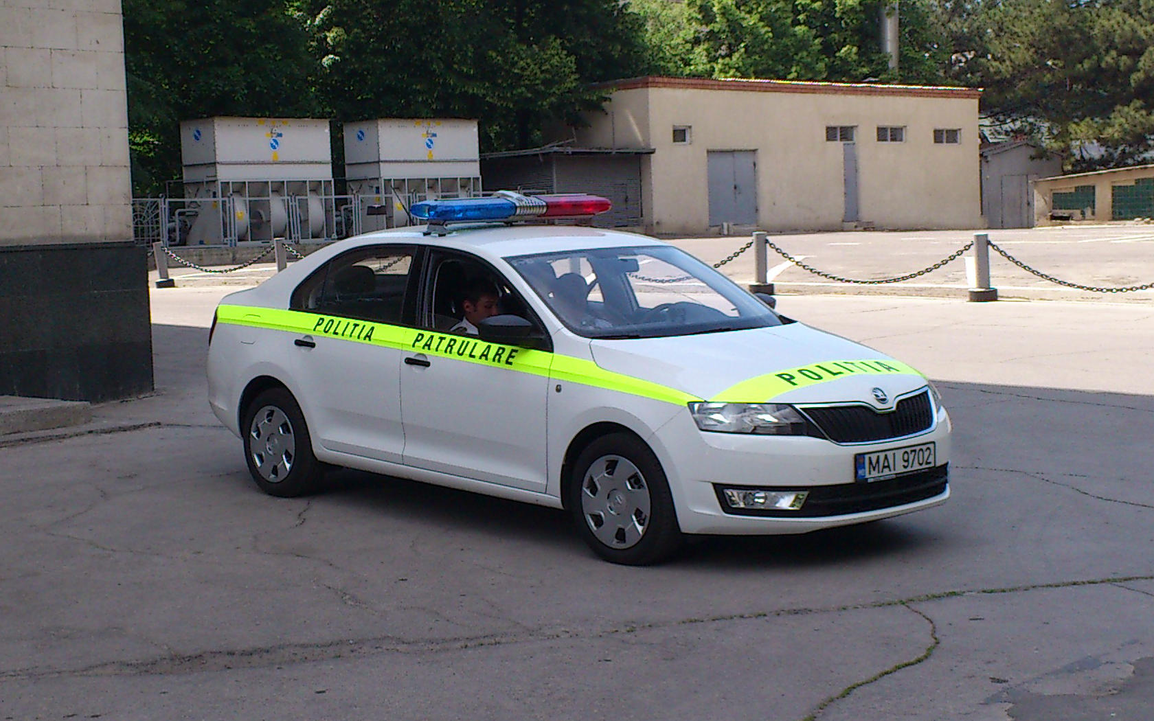 Skoda Rapid police car, Chisinau, 2013